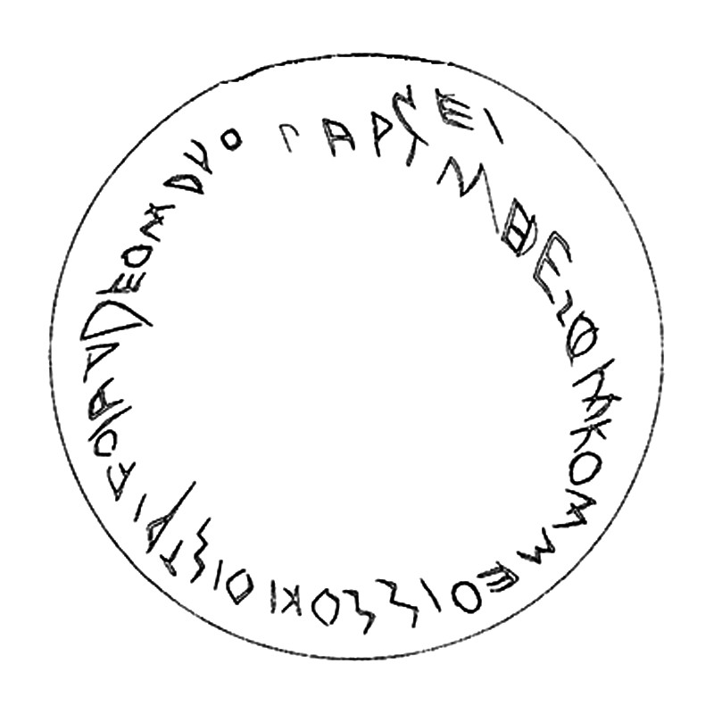 Italic inscription from the Sanctuary of Marica near Minturnae: esom kom meois sokiois trivoial deom duo. x[---]x nei pari med.